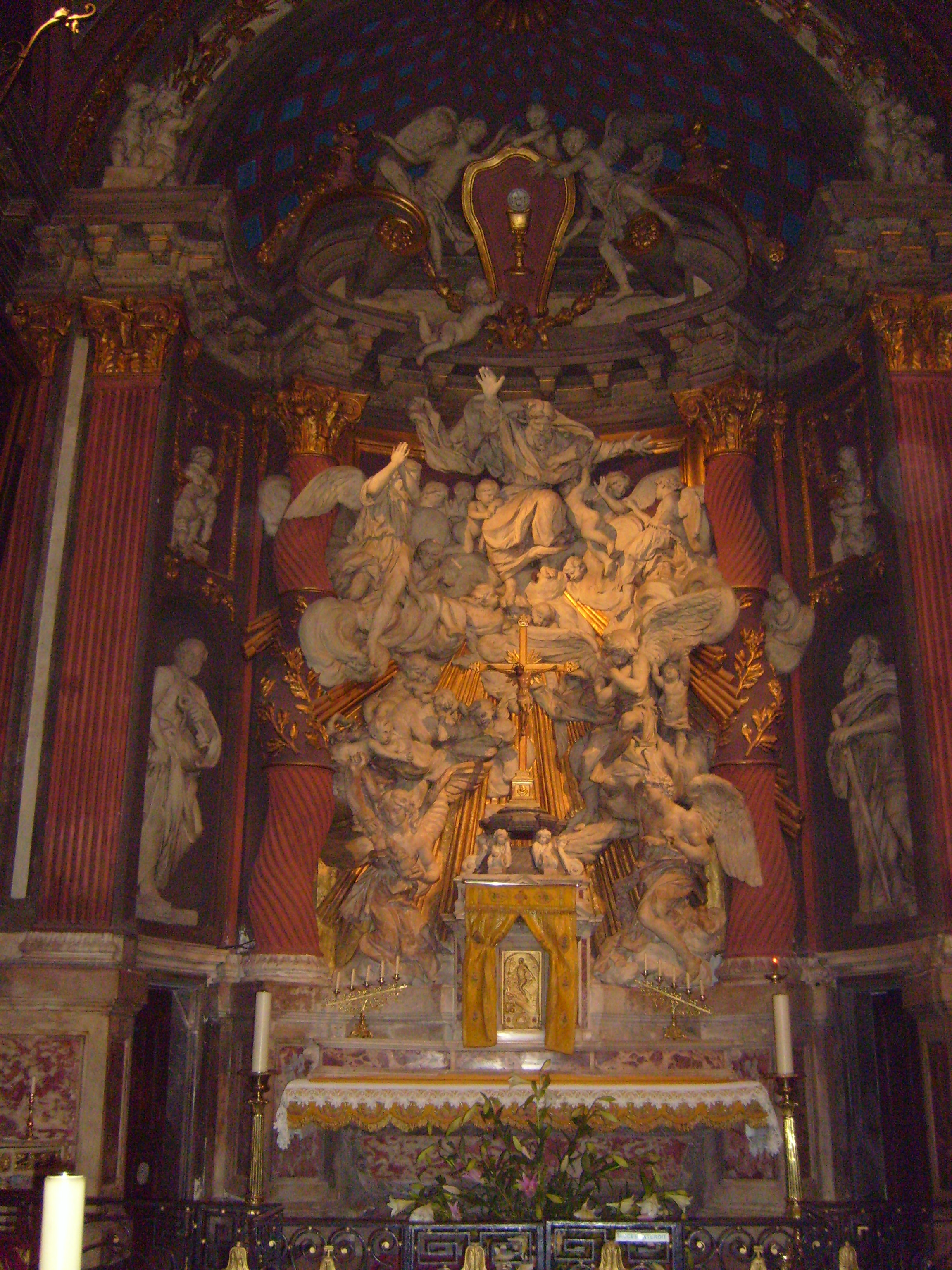 Retable by Christophe Veyrier in Toulon Cathedral (18th century)